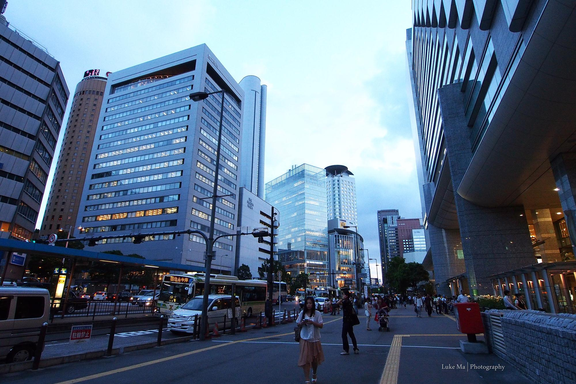 梅田 大阪 日本 by Olympus OM-D E-M5 M.Zuiko M.ZD ED 9-18mm